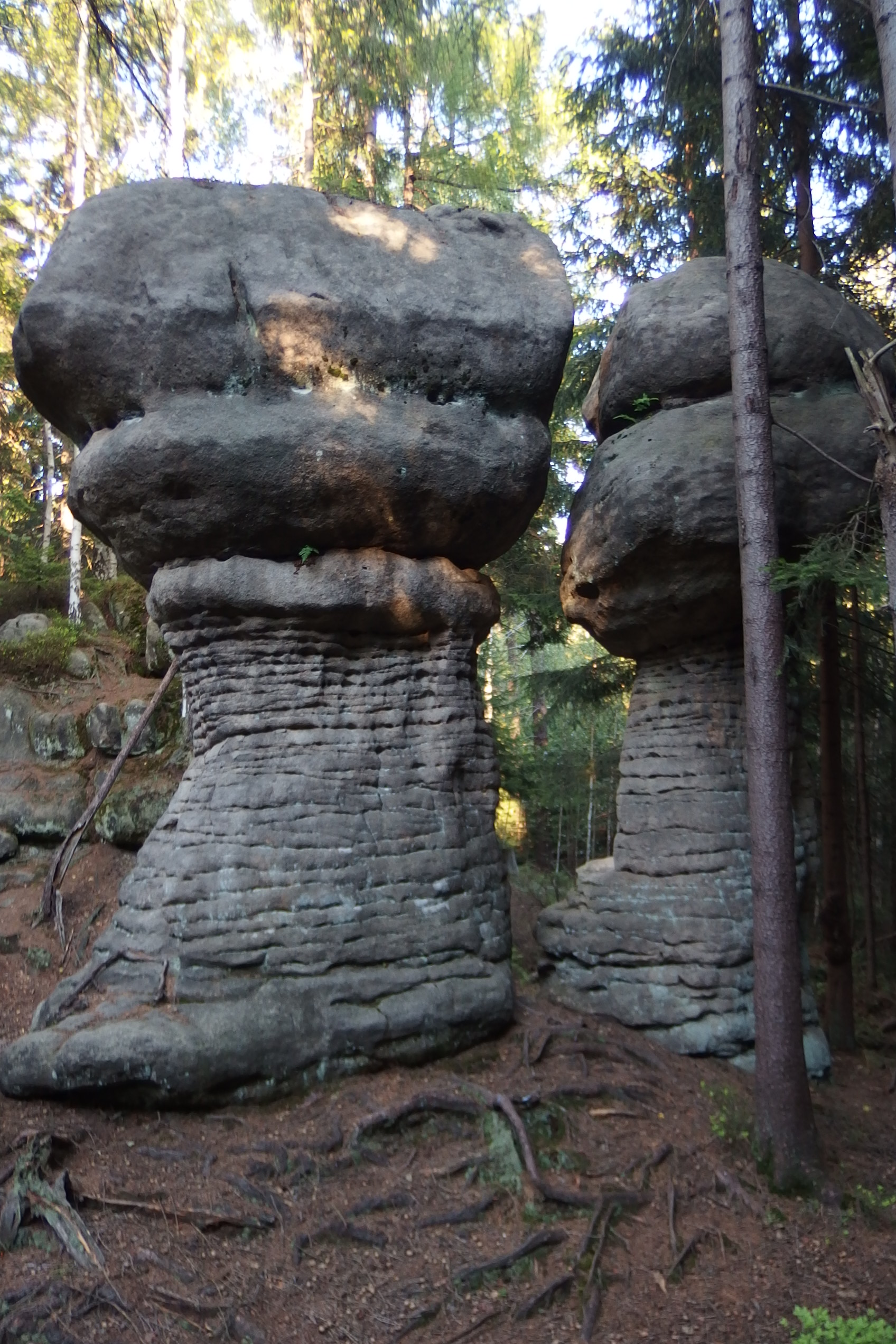 Skalne Grzyby (ang. rock mushrooms)